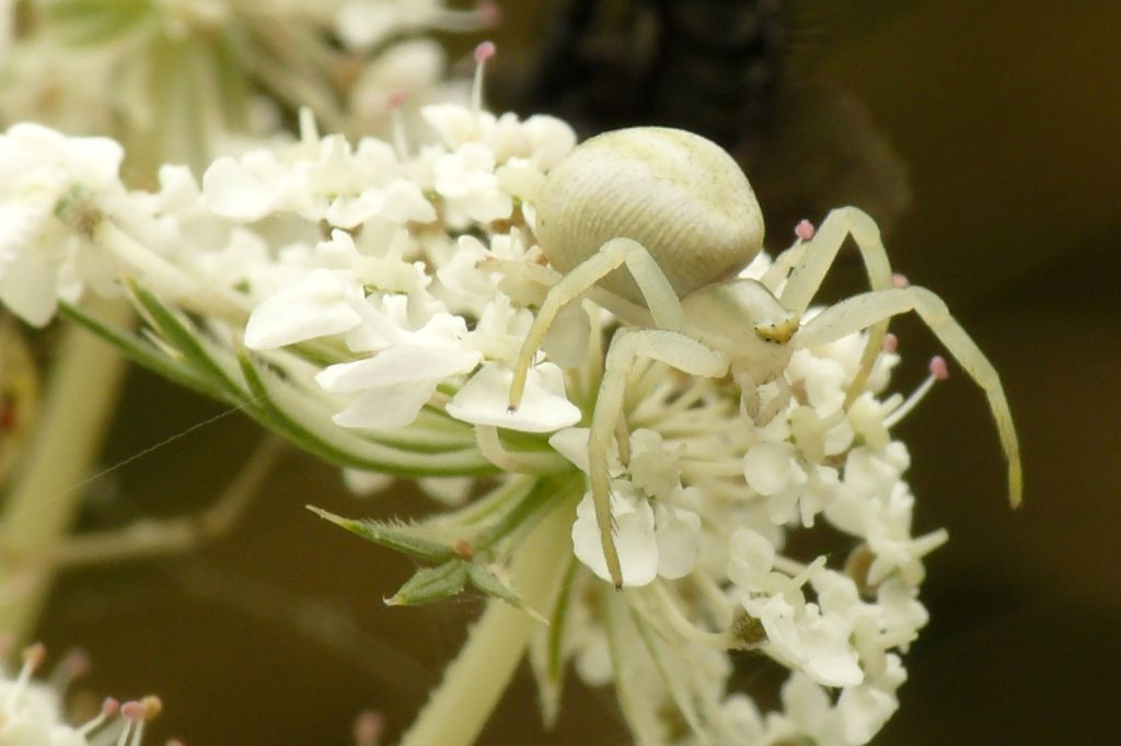 Misumena vatia